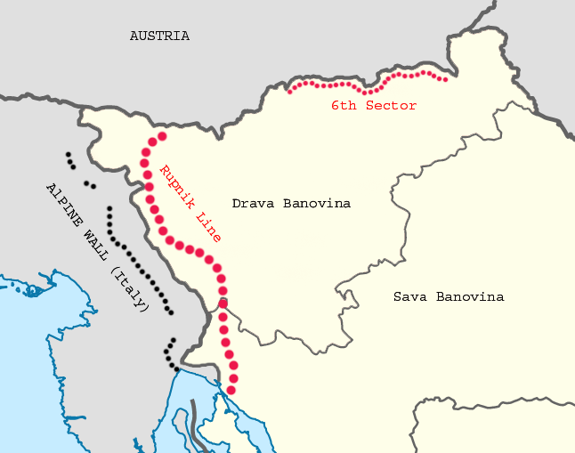 Map of rupnik line, defence fortifications along the italian yugoslav border